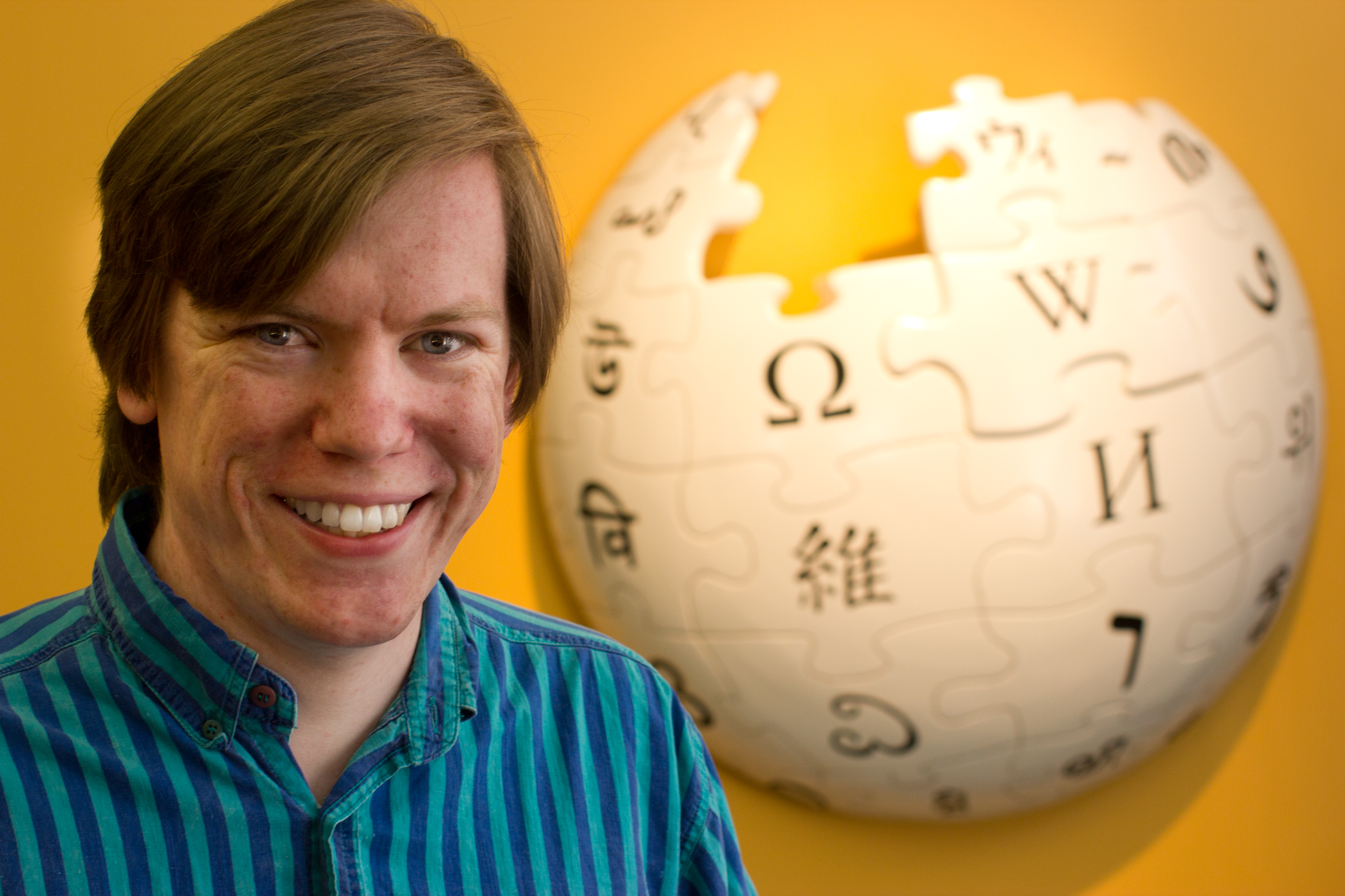 Paul Stansifer at the Wikimedia Foundation office in San Francisco in front of the Wikipedia Puzzle Globe Logo, which he helped to design.